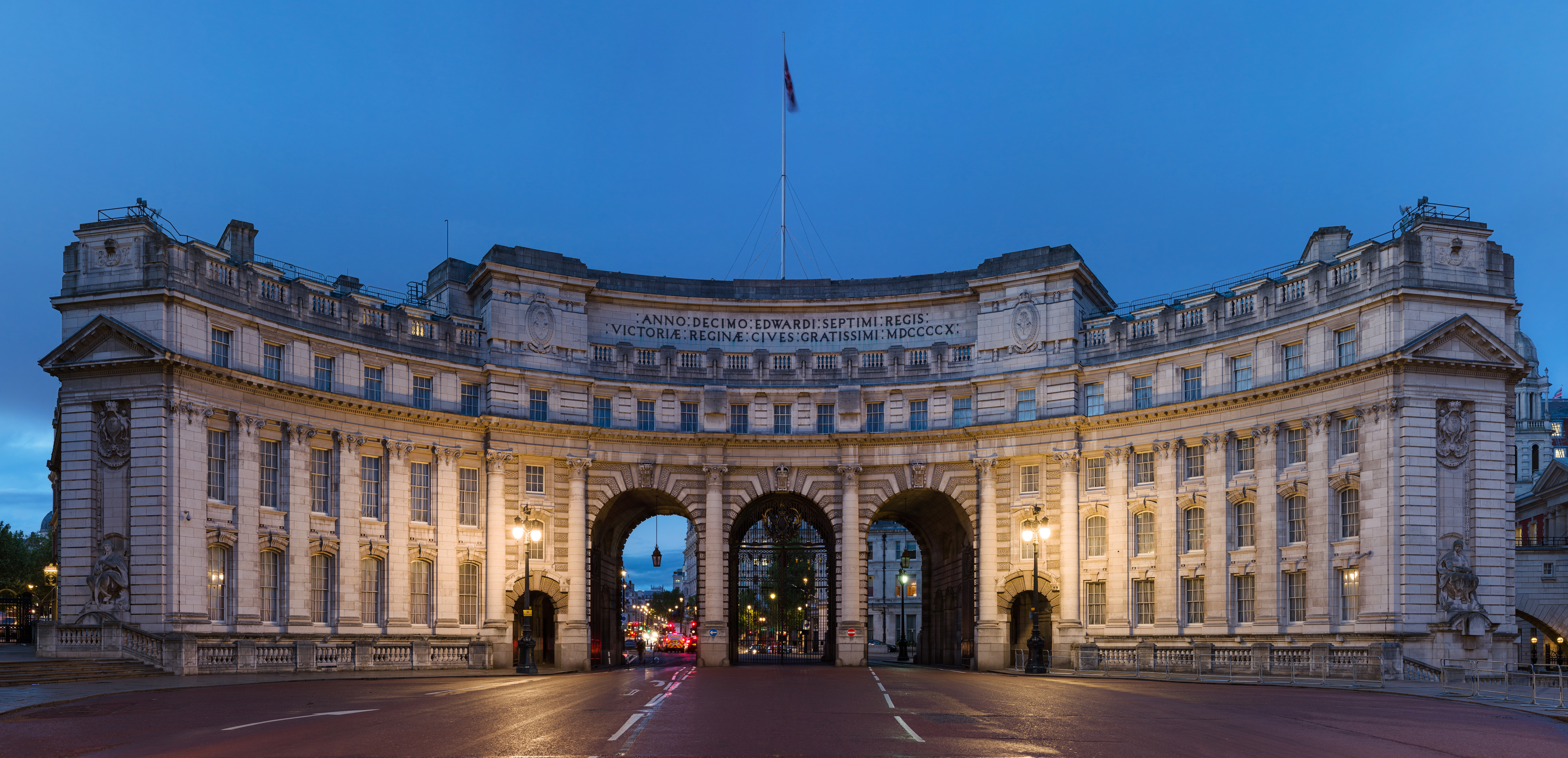 Admiralty Arch during the blue hour, as viewed from the Mall in London, England.